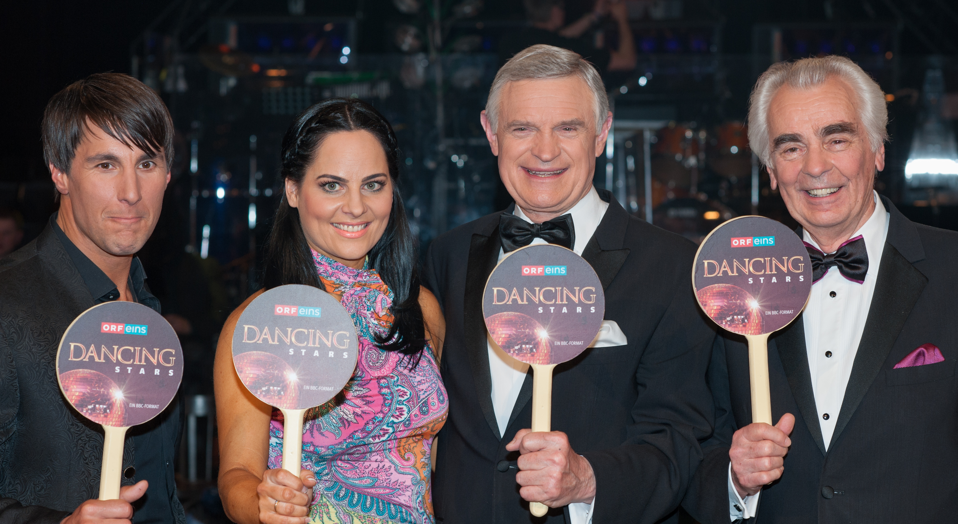 "Dancing Stars" am 5. April 2013 The making of this work was supported by Wikimedia Austria. For other files made with the support of Wikimedia Austria, please see the category Supported by Wikimedia Österreich. Balázs Ekker, Nicole Burns-Hansen, Thomas Schäfer-Elmayer, Hannes Nedbal